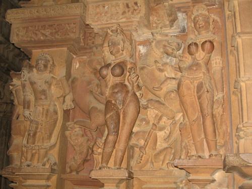 Own camera. Photo taken 27.03.2008